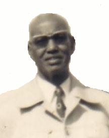 Depicted person: Hassan Gouled Aptidon – President of Djibouti